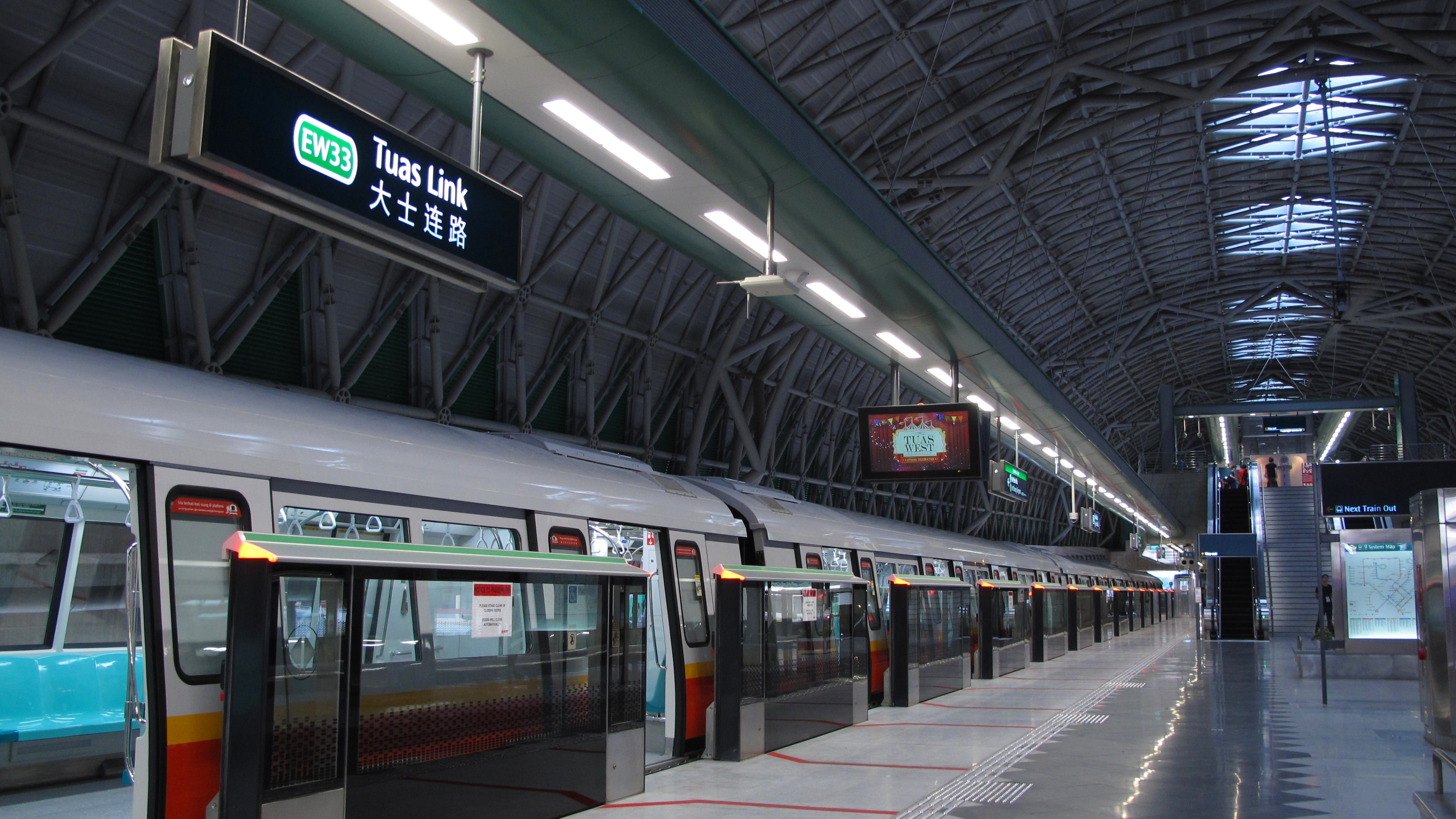 Platform level of Tuas Link station